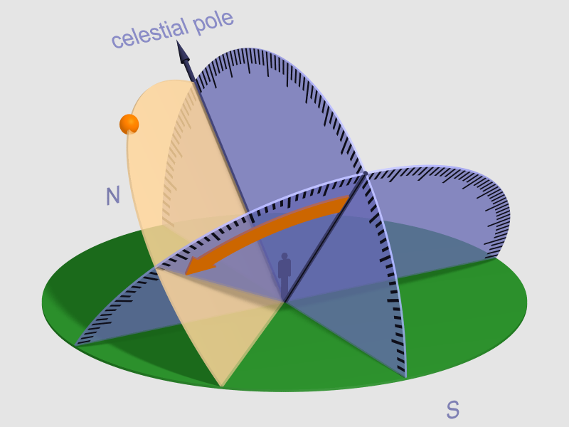 The hour angle of a celestial body is the angle between the meridian and the hour circle on which the body is located. The diagram shows the situation for an observer at a geographical latitude of 48°N.